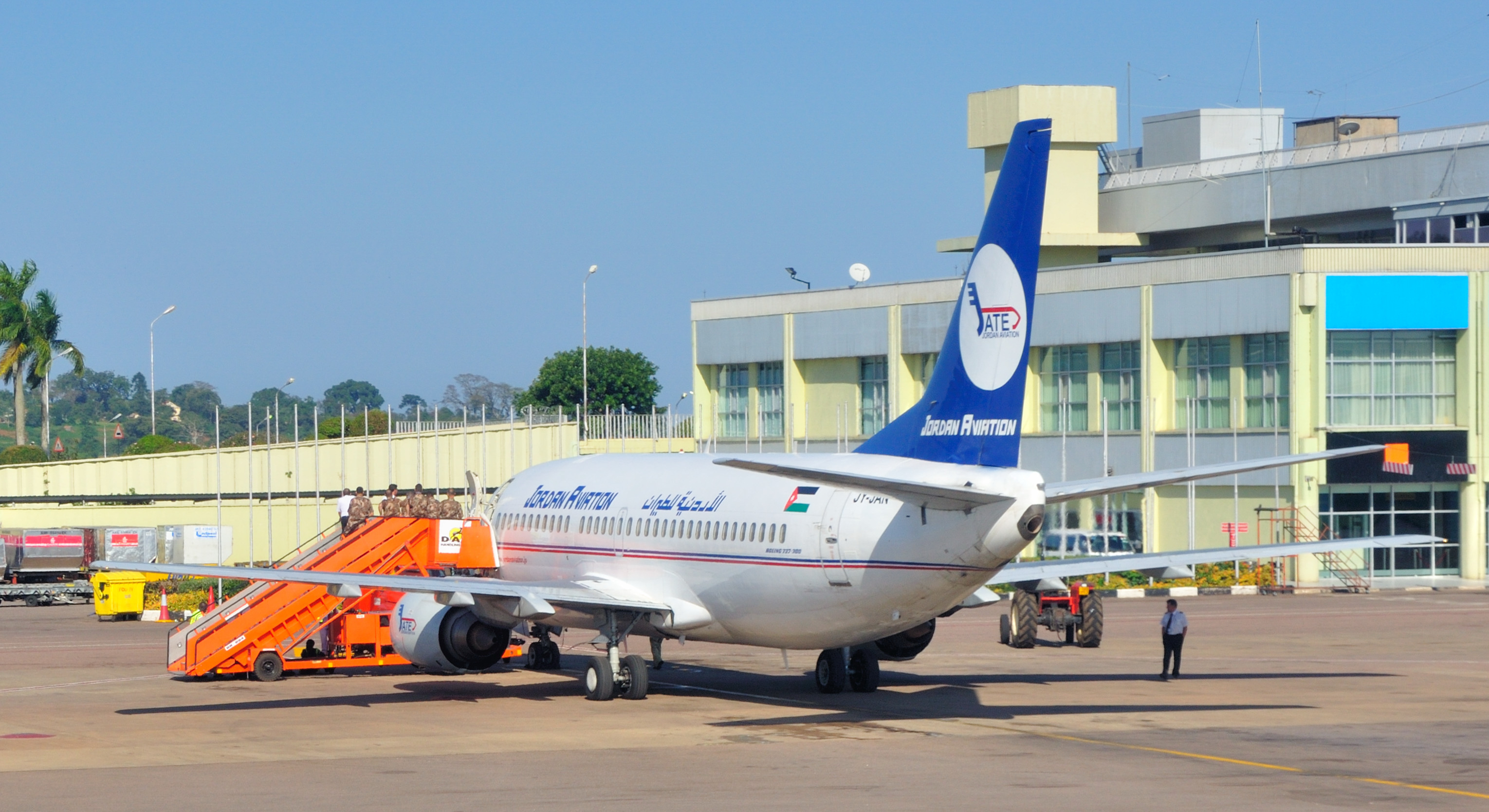 Uganda, Jordan Aviation's Boeing 737-322 JY-JAN parked at Entebbe International Airport